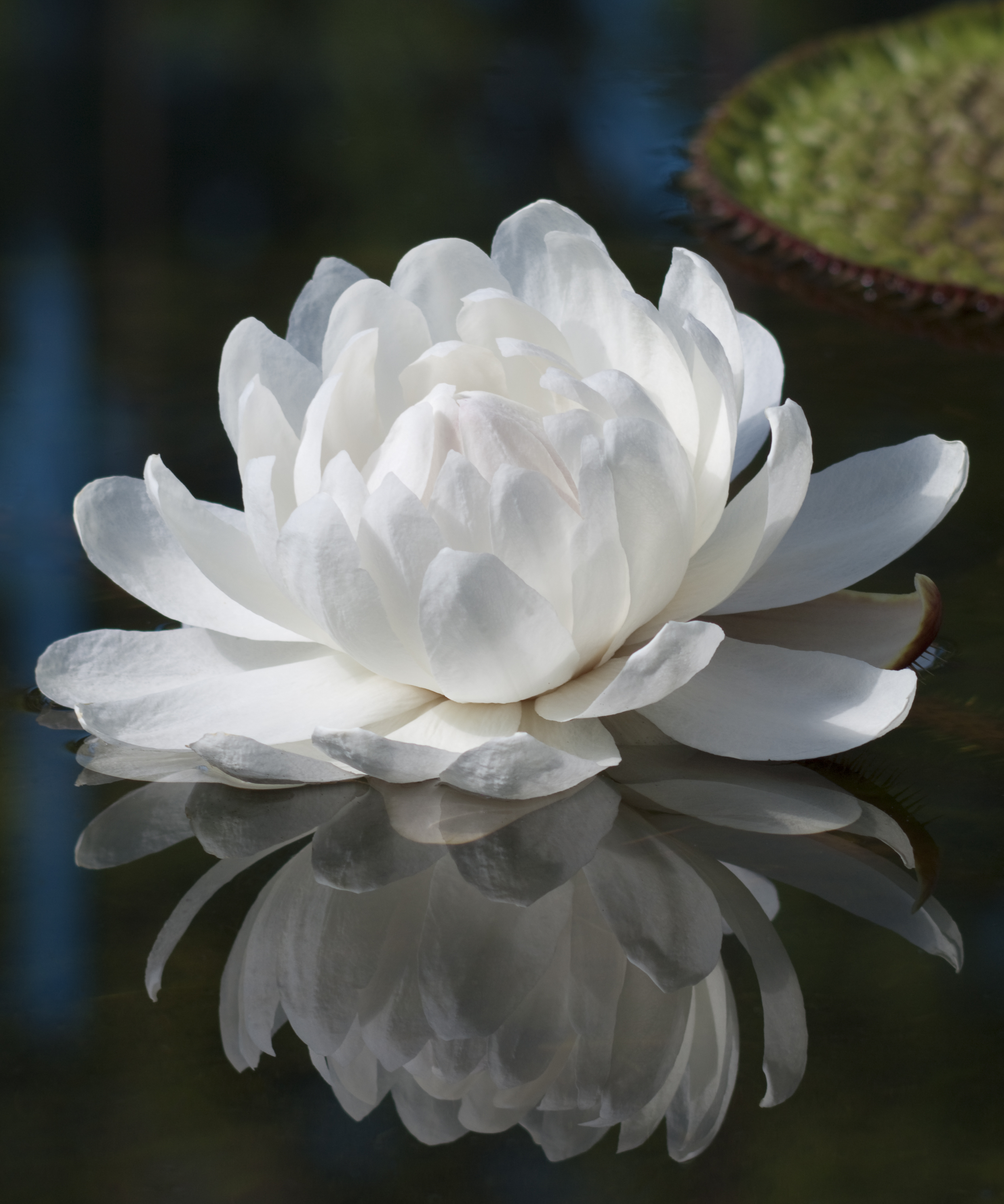 Flower from the Giant Amazon Water Lilly (Victoria amazonica) at the Adelaide Botanic Garden.